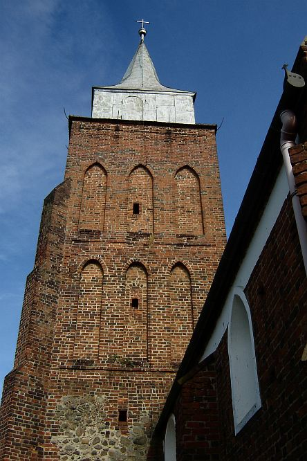 Church Tower in Siedlnica (Wschowa county)